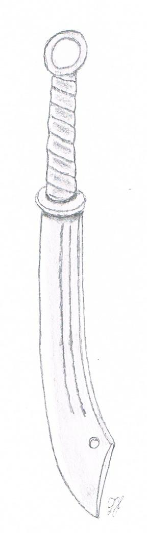 Dadao